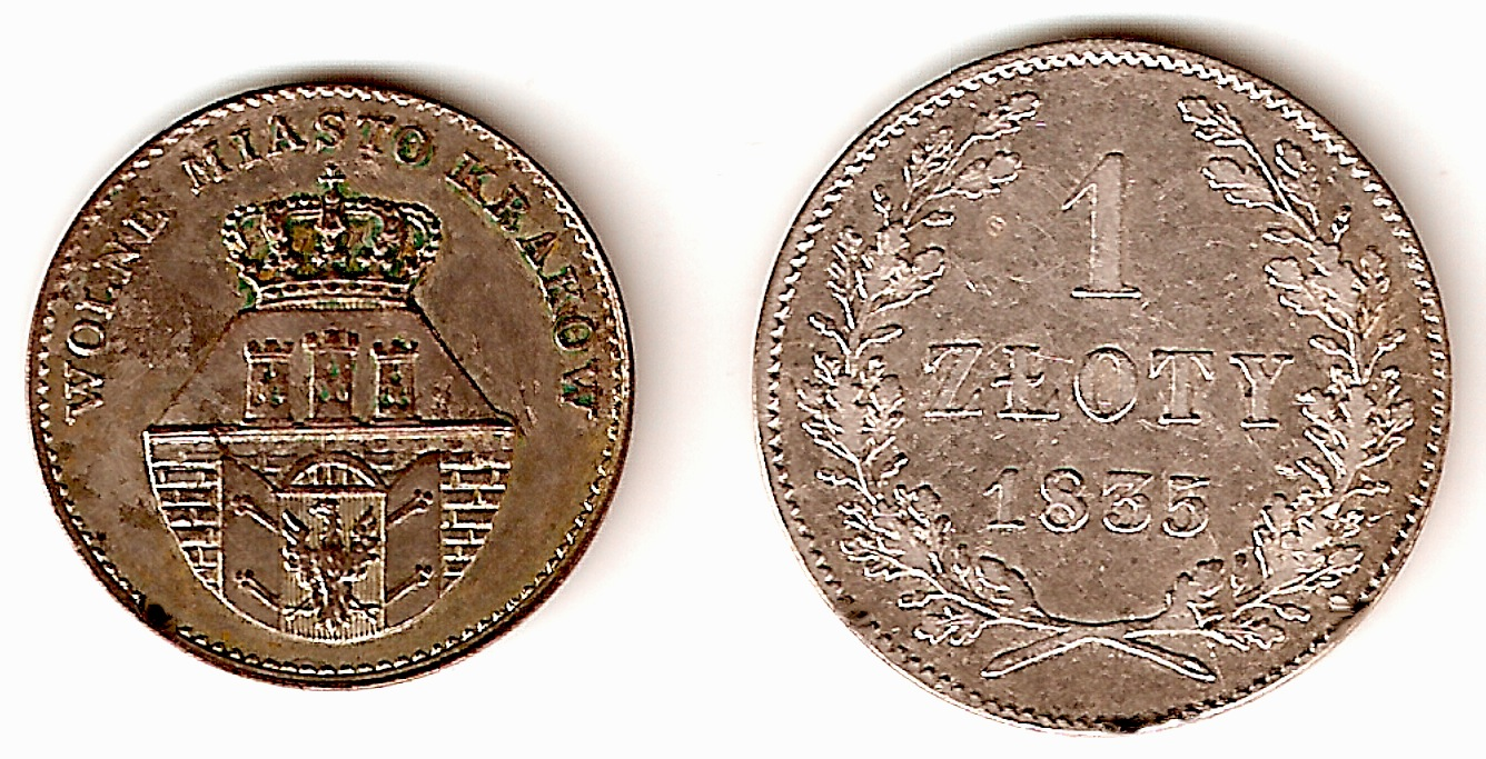 Scan of coins of the Free City of Cracow from 1835